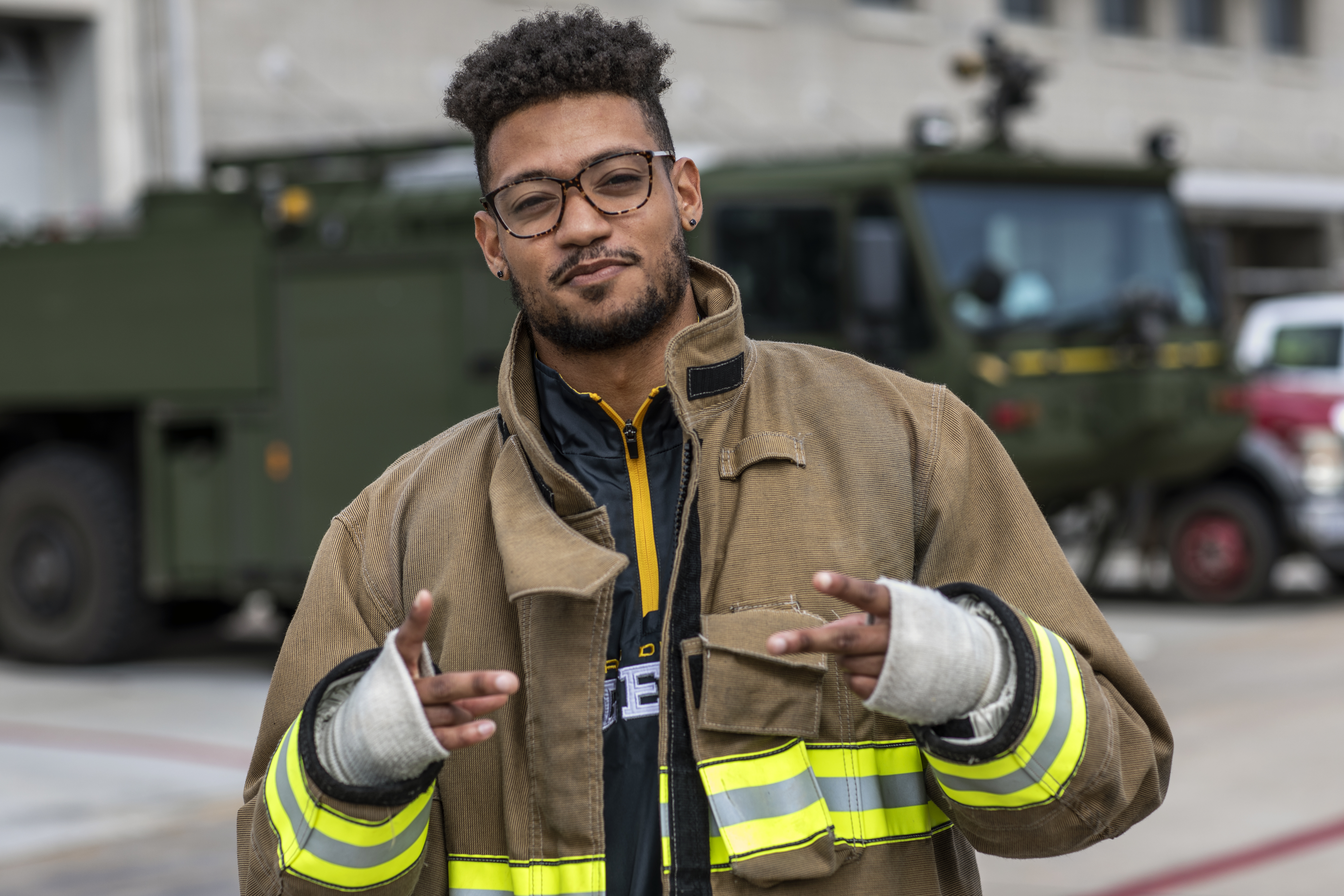 Kendall James, cornerback for the San Diego Fleet football team, poses for a photo in front of Marine Corps Air Station Miramar’s Aircraft Rescue and Firefighting station at MCAS Miramar, Calif., Feb. 26. The San Diego Fleet football team visited MCAS Miramar to further foster cohesion between the San Diego community and MCAS Miramar. (U.S. Marine Corps photo by Sgt. Jake McClung)